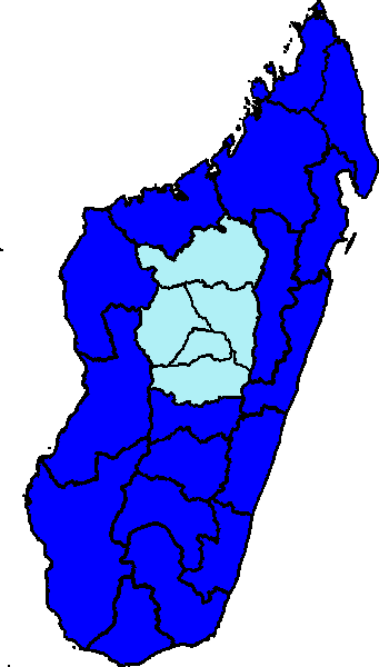 Depicts the winner of each of Madagascar's regions in the 2013 election for president; Dark Blue for Rajaonarimampianina, and Light Blue for Robinson.